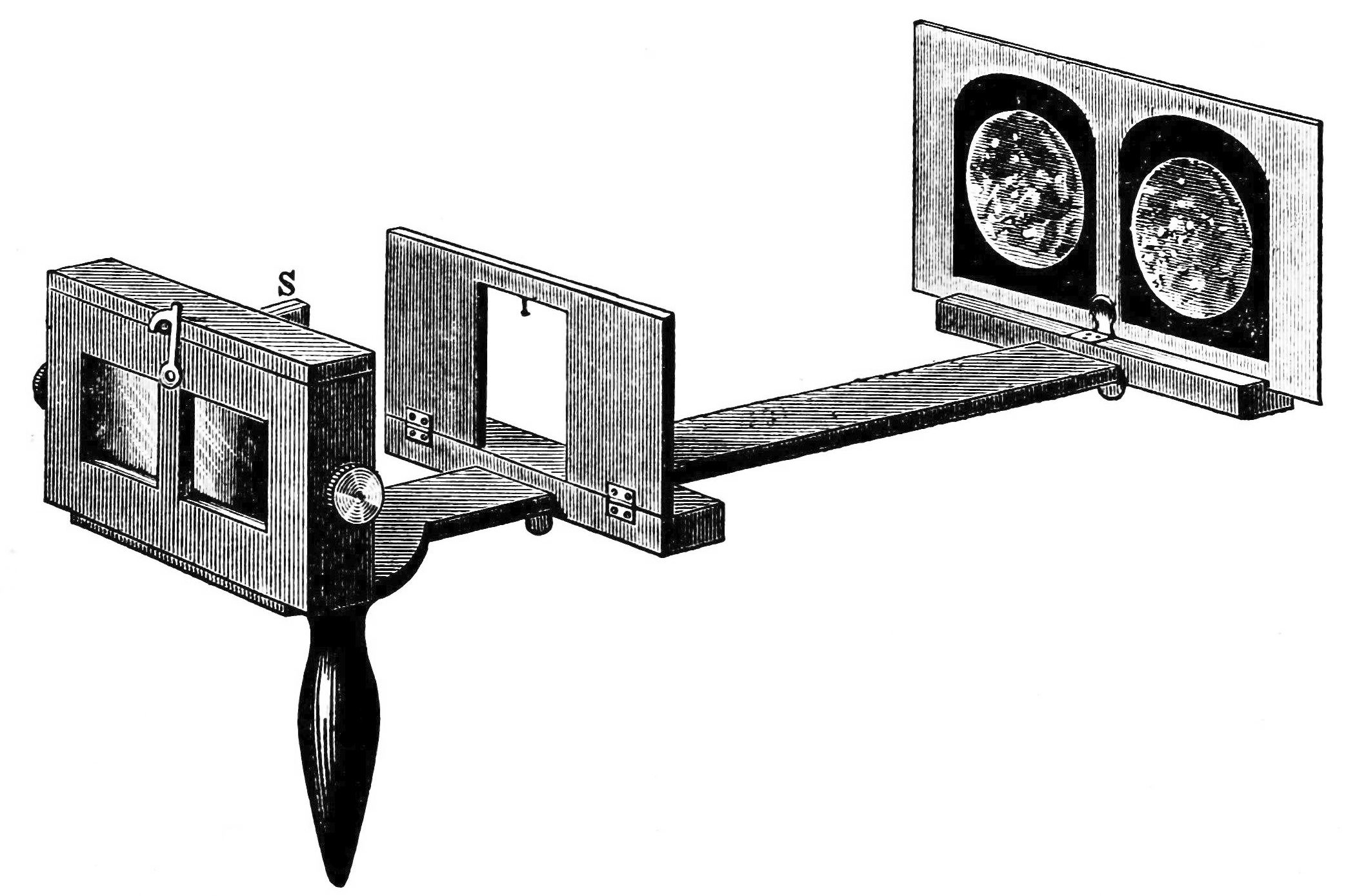 Stereoscope adjustable for reversed perspective